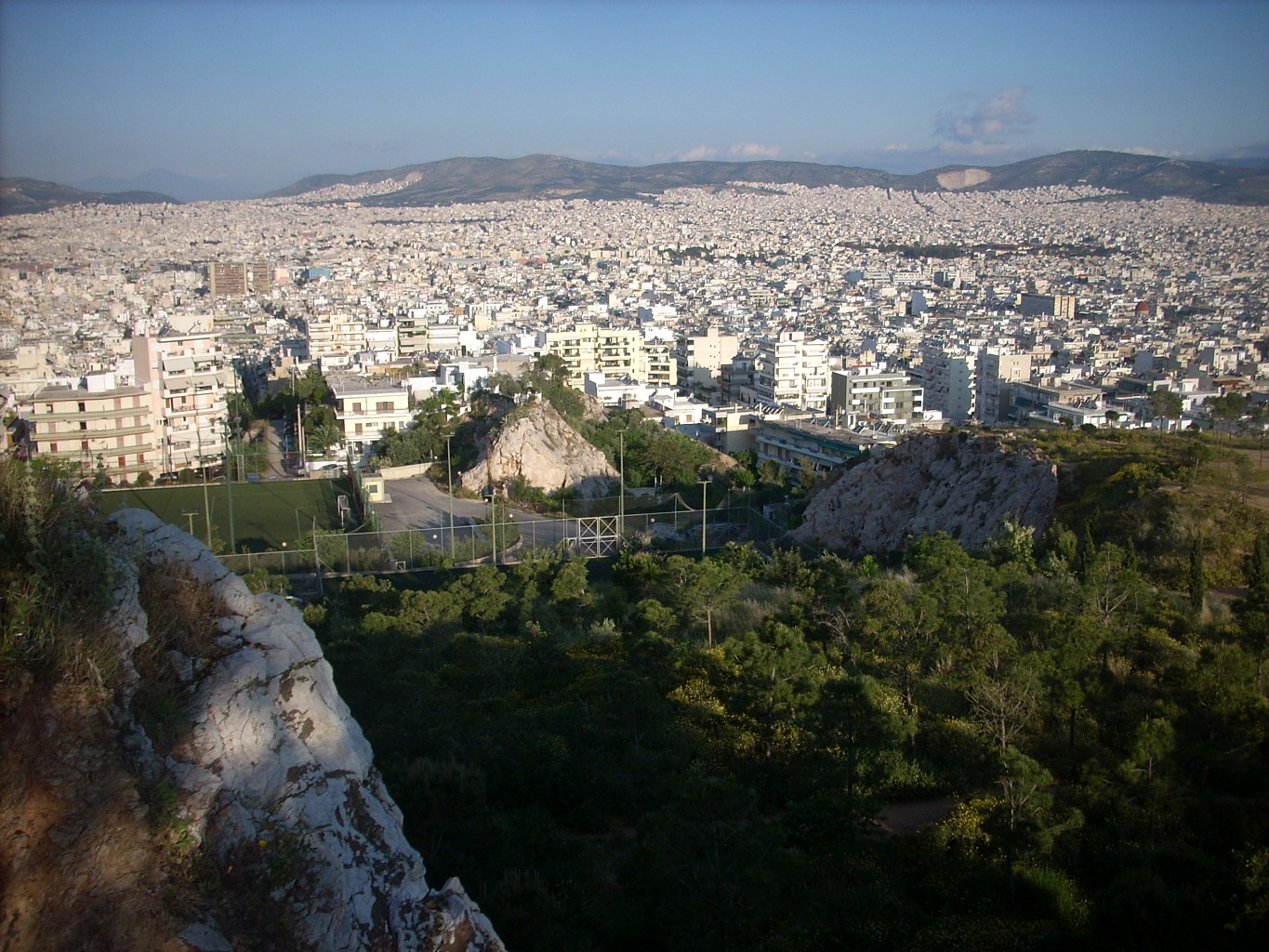 Kypseli in Athens – view from hill Lofos Elikonos